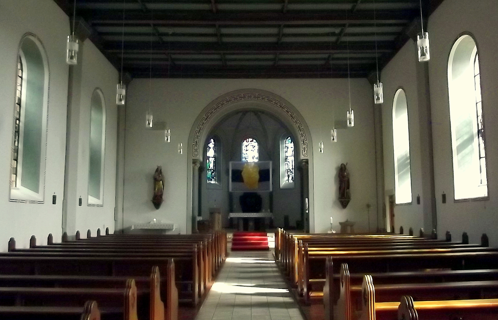 Interior of the roman catholic church in Britten, Saarland, Germany